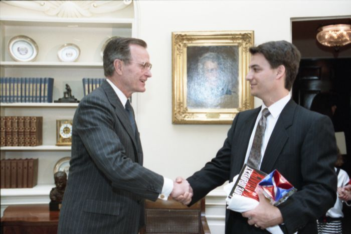 President George H. W. Bush meets with Dave Dravecky and his family in the Oval Office.